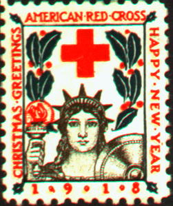 1918 type 1 Christmas seal